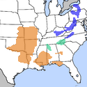 GFDL. Modified version of Image:Map_of_USA_highlighting_Massachusetts.png. Afbeelding:Eumeces anthracinus Range.png